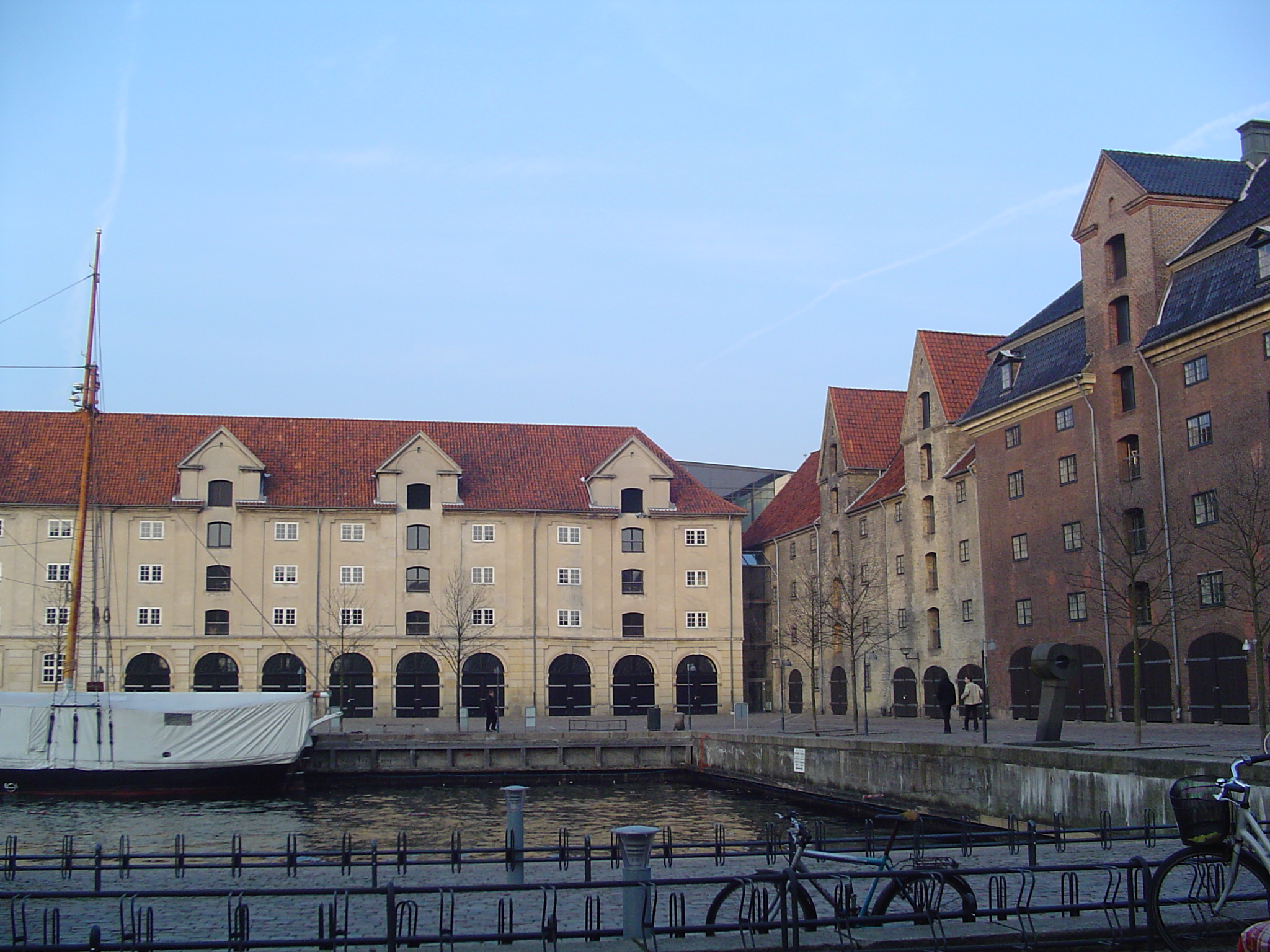 Buildings in the Ministry of Foreign Affairs of Denmark. The buiding in front is Eigtveds Pakhus while the building to the right is the Information Secretariat.